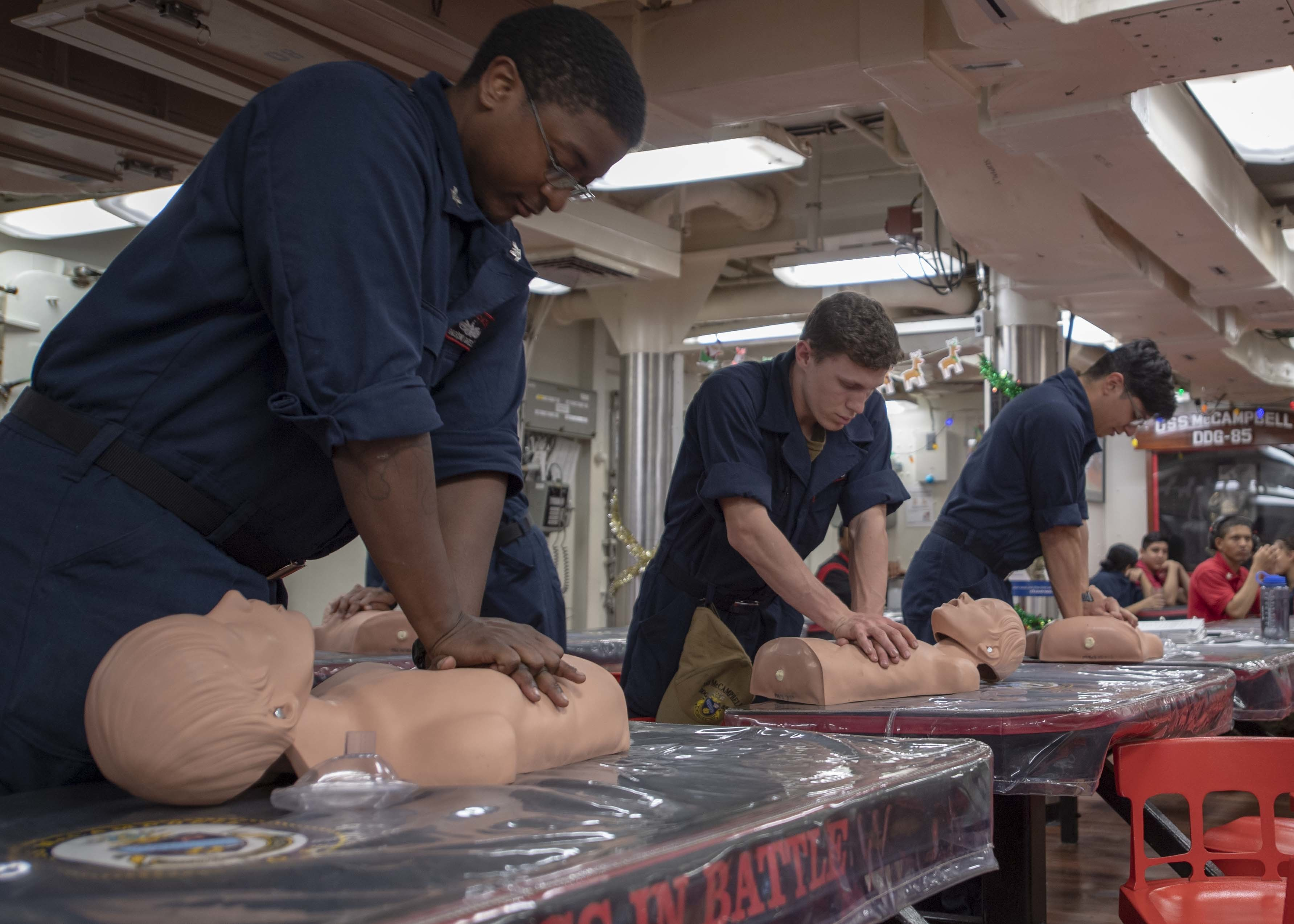 191218-N-AJ005-2009 SOUTH CHINA SEA (Dec. 18, 2019) Sailors, assigned to the Arleigh Burke-class guided-missile destroyer USS McCampbell (DDG 85) practice chest compressions during a CPR class. McCampbell is underway conducting operations in the Indo-Pacific region while assigned to Destroyer Squadron (DESRON) 15, the Navy’s largest forward-deployed DESRON and the U.S. 7th Fleet’s principal surface force. (U.S. Navy photo by Mass Communication Specialist 3rd Class Cody Beam)